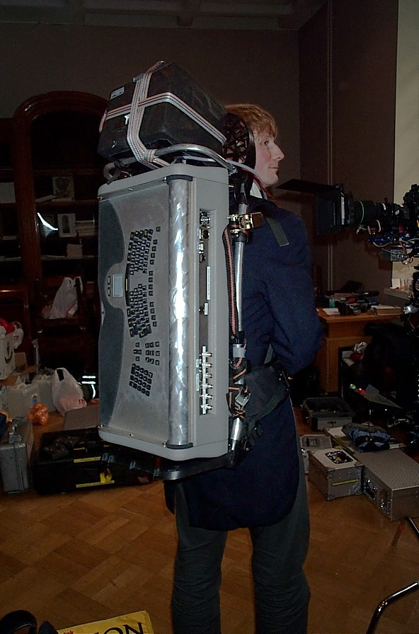 Hard disc recorder with battery pack as powersupply for the shooting of Russian Ark